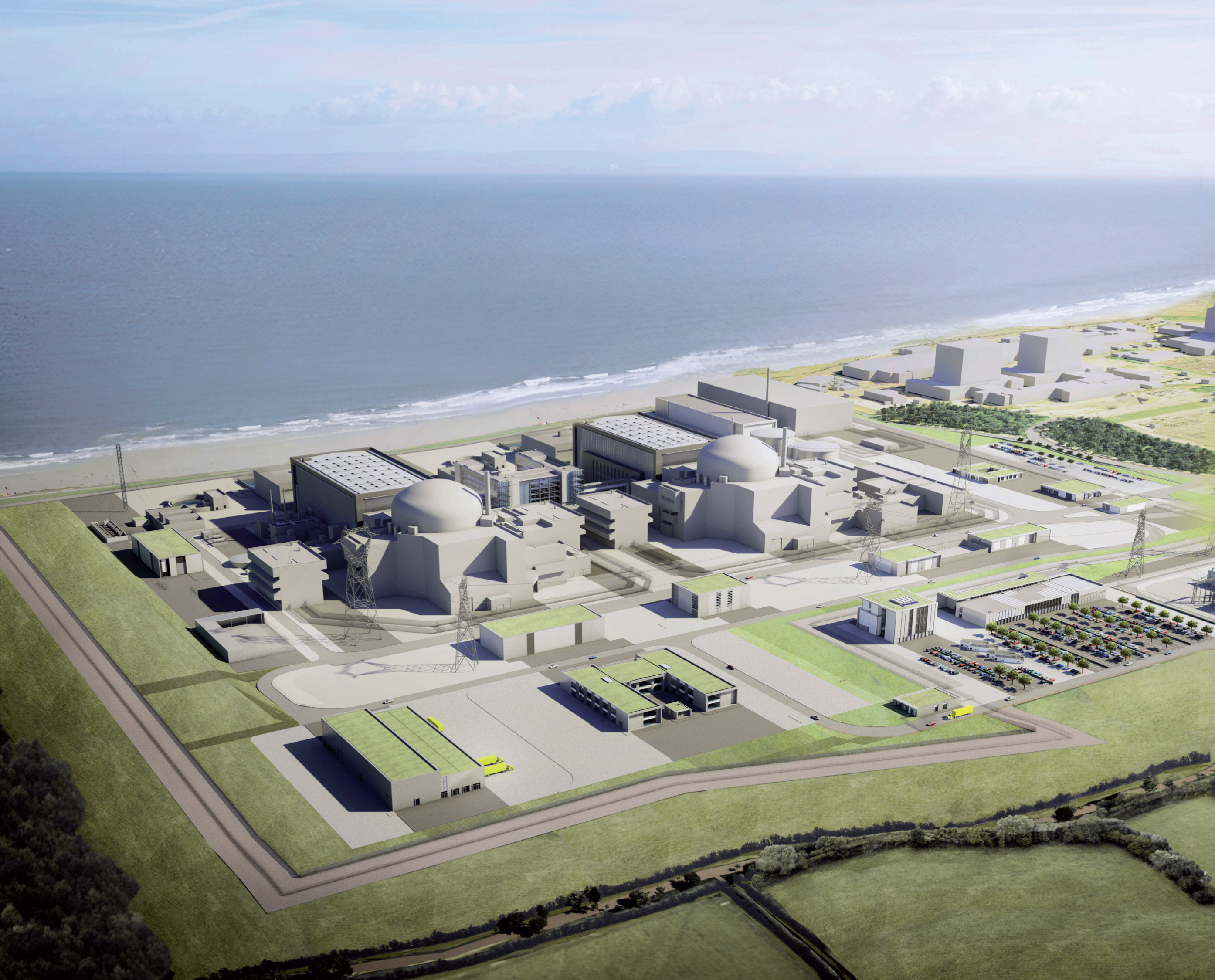 An aerial view of Hinkley Point C.